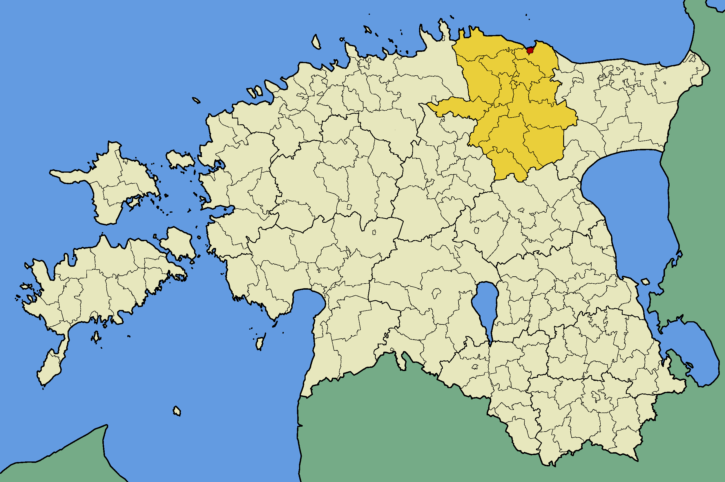 Map of Estonia with borders of municipalities (parishes). Lääne-Viru county and Kunda town municipality emphasized.